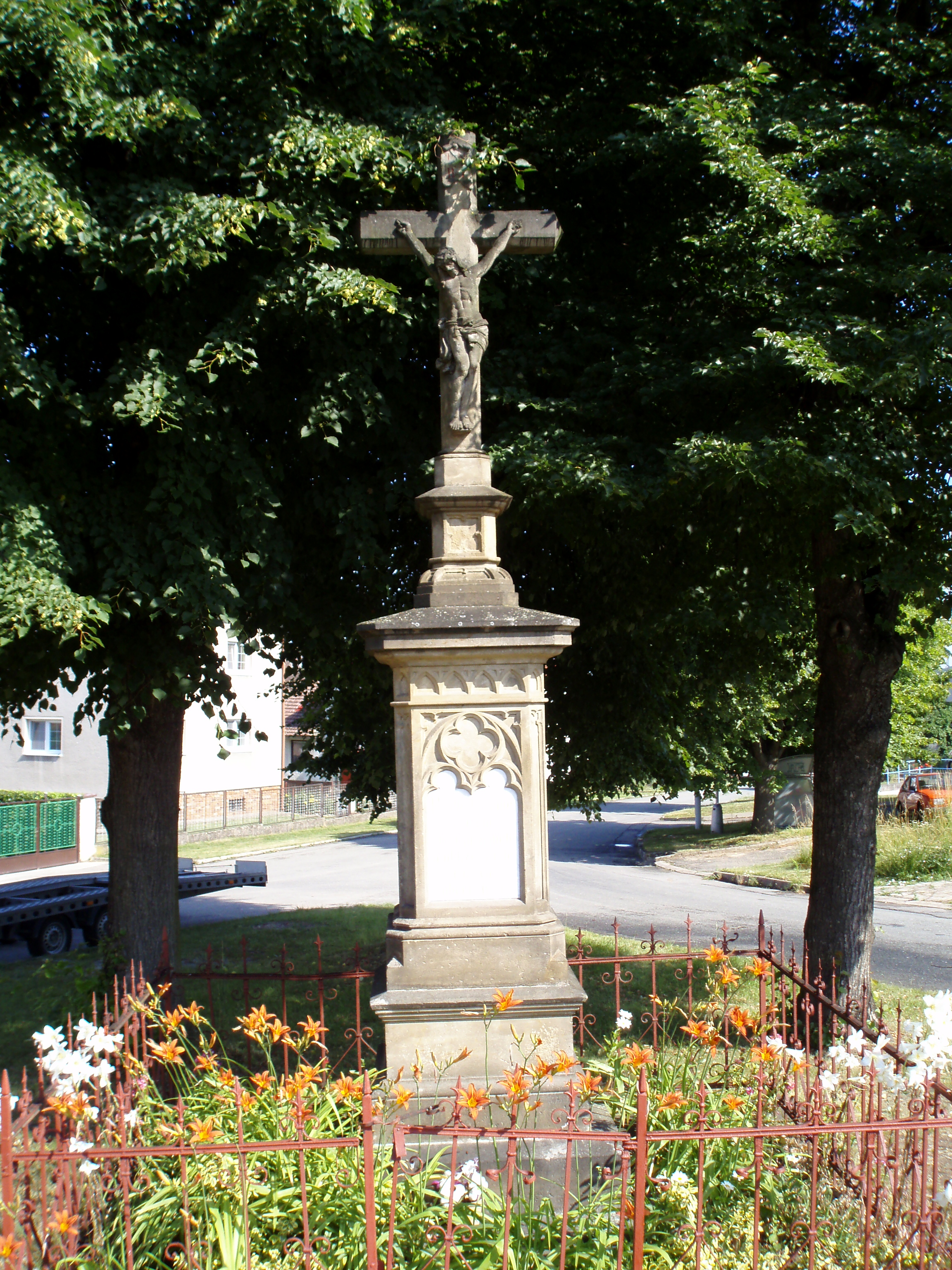 Wayside cross in Těchlovice (District of Hradec Kralove)